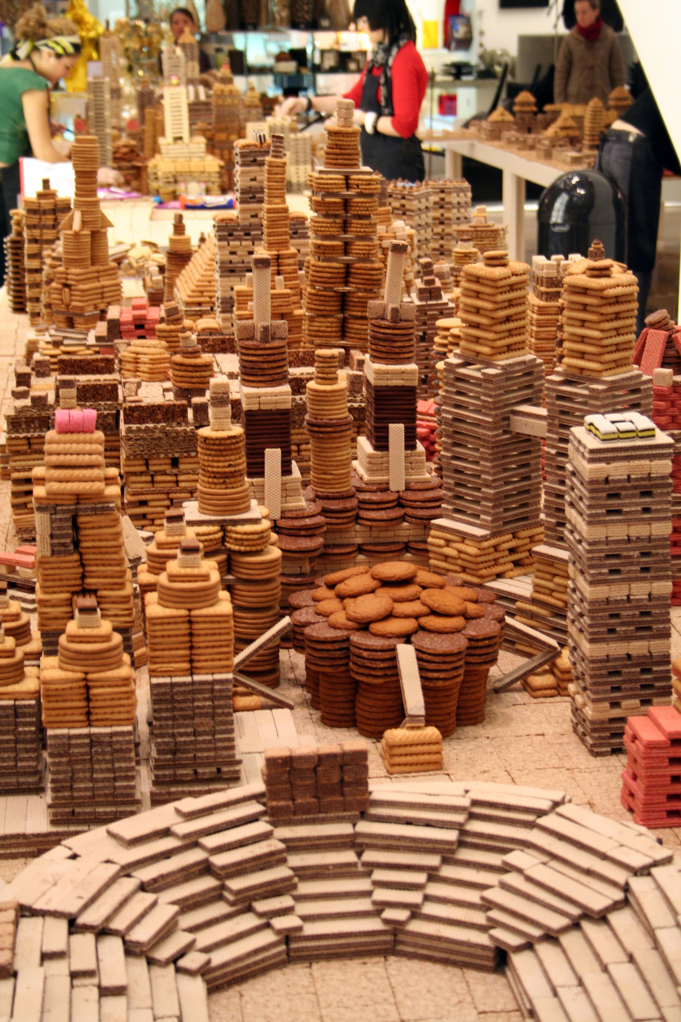 A photograph of Sung Dong's art installation "Eating the City" on display in the basement of Selfridges Oxford Street from 14th to 22nd February. These photos were taken on the Saturday with 3 days left to finish building the city before it's eaten by the visiting public! More info: Selfridges page on the event Times Online article